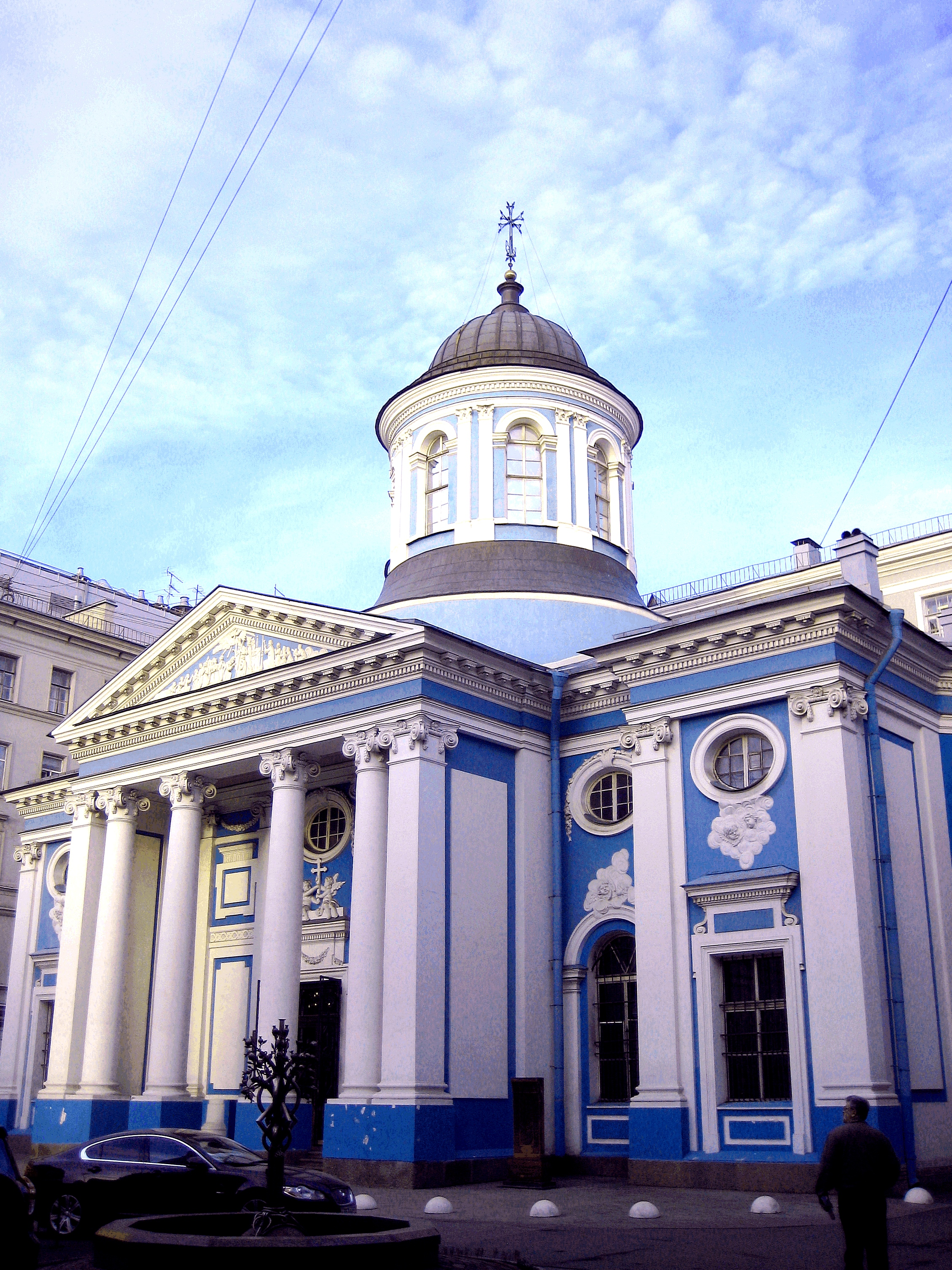 The Armenian Church of St. Catherine (arch. Felten Yu.M.), 1771: Nevsky Prospekt, 40-A. Central district, St. Petersburg.